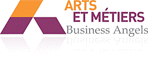 Logo des Arts et Métiers Business Angels